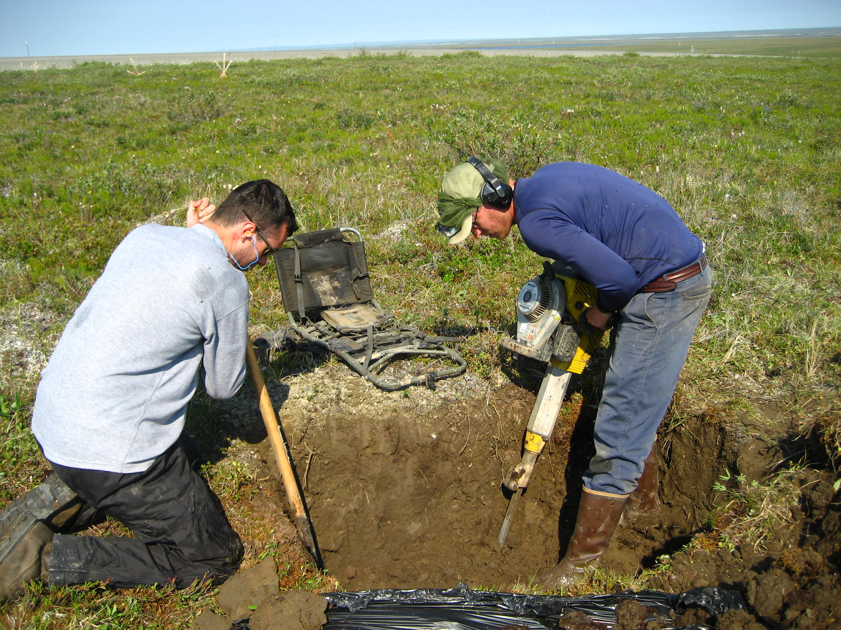 Digging in permafrost.